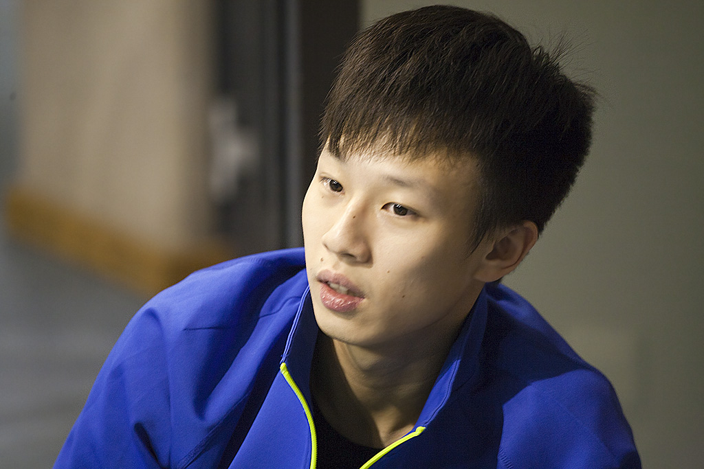 ITTF World Tour 2017 German Open, Magdeburg, Germany, 7 Nov 2017 - 12 Nov 2017, Lin Gaoyuan